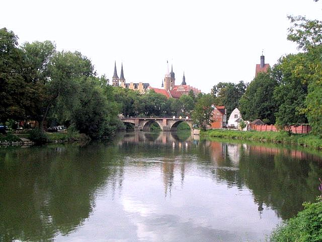 Beautiful view of Merseburg